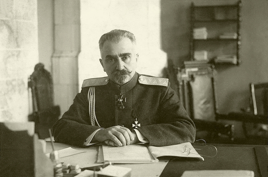 Yuri N. Danilov, General of Infantry (1914), Quartermaster-General of the Russian General Headquarters (1914-1915), Chief of Staff of the Northern Front (1916-1917), assistant chief of Military Directorate of the Armed Forces of South Russia (1920).